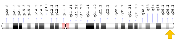 SHH gene. Cytogenetic Location: 7q36 The SHH gene is located on the long (q) arm of chromosome 7 at position 36. More precisely, the SHH gene is located from base pair 155,802,863 to base pair 155,812,272 on chromosome 7.